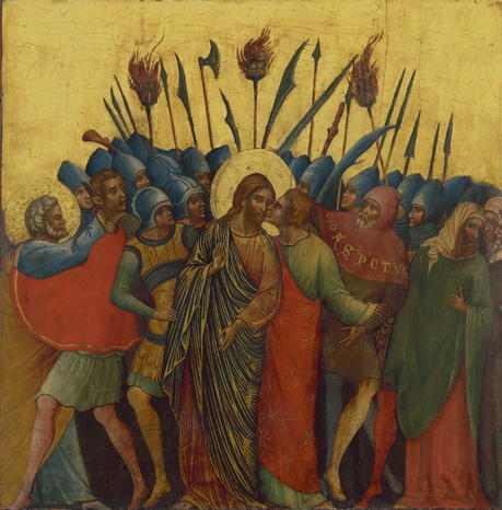 The Capture of Christ (c. 1345) by Paolo Veneziano, Berkeley Art Museum